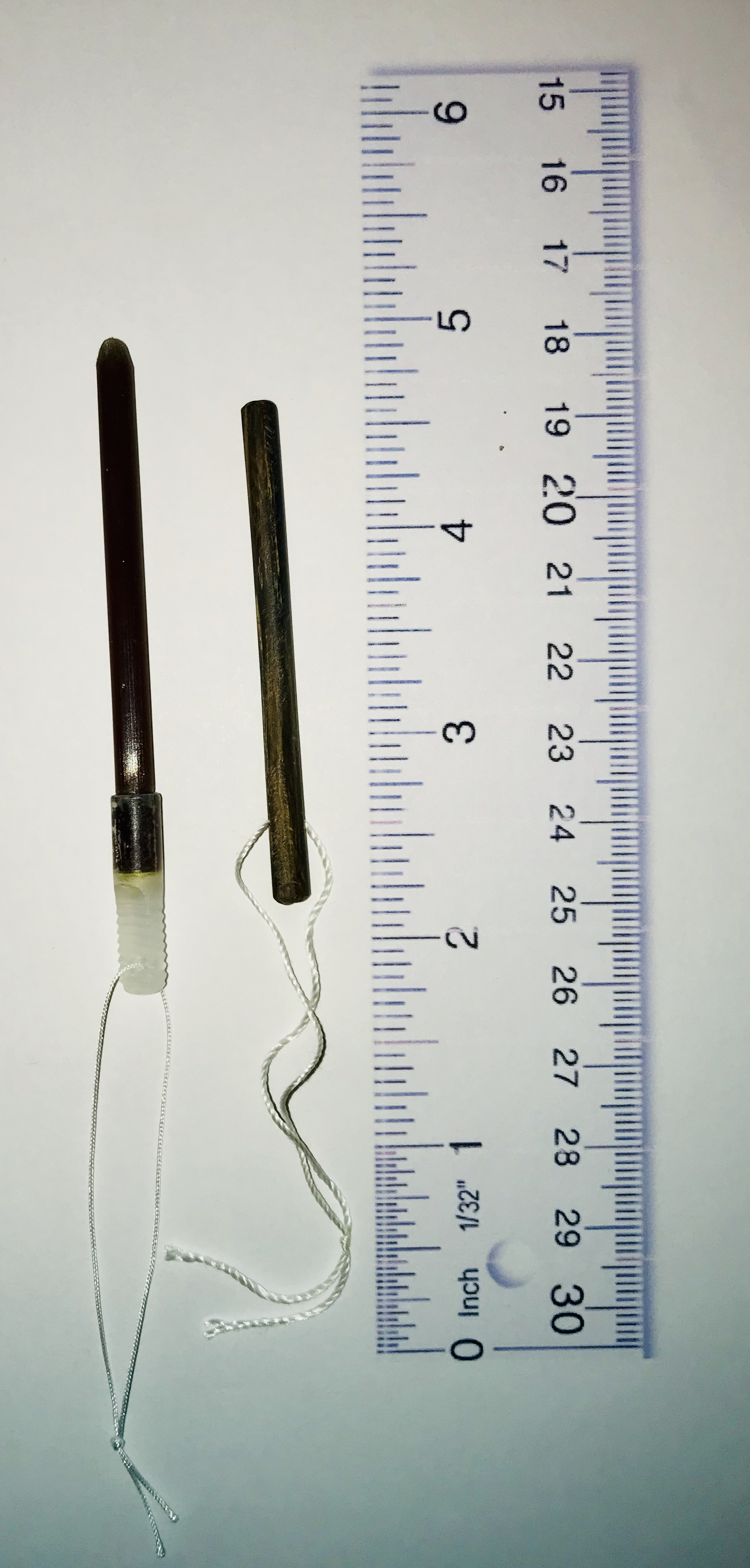 Osmotic dilators prior to being used. Dilapan-S (left). Laminaria (right)